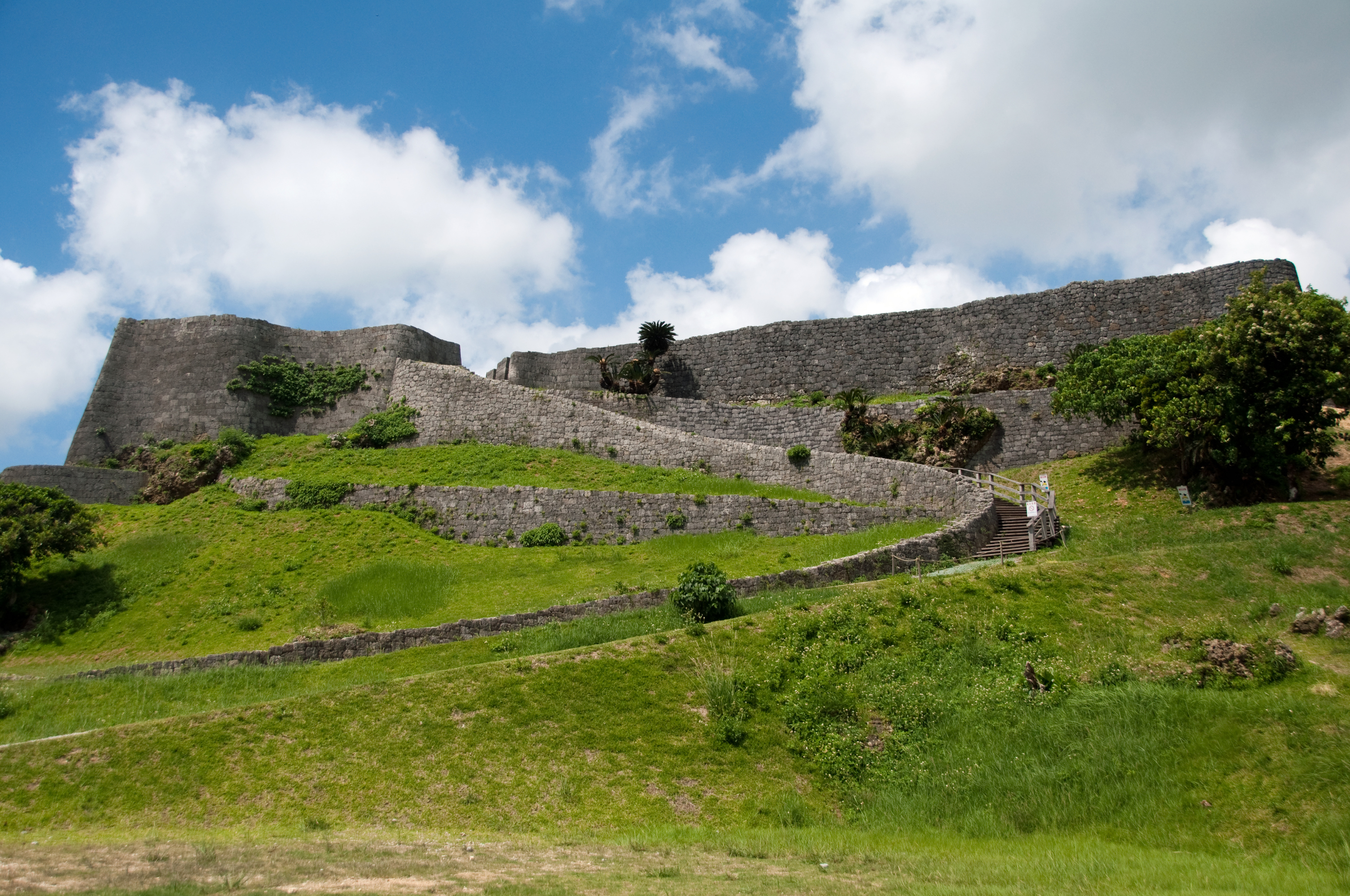 Katsuren Castle, Uruma, Okinawa Prefecture, Japan.